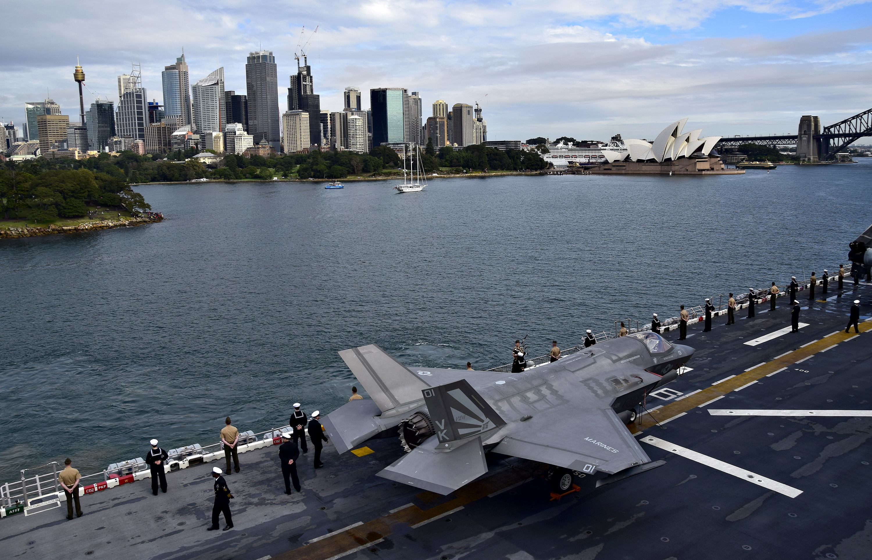 SYDNEY (June 18, 2019) Sailors and Marines man the rails aboard the amphibious assault ship USS Wasp (LHD 1) as the ship arrives in Sydney, Australia for a port visit. Wasp, flagship of the Wasp Amphibious Ready Group, with embarked 31st Marine Expeditionary Unit, is operating in the Indo-Pacific region to enhance interoperability with partners and serve as a ready response force for any type of contingency. (U.S. Navy photo by Mass Communication Specialist 1st Class Daniel Barker/Released)190618-N-RI884-1262